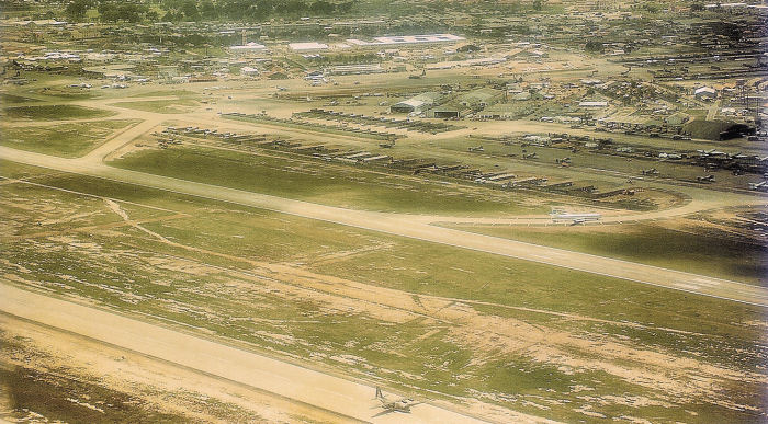 Aerial view of Tan Son Nhut Air Base, Saigon, South Vietnam, in June 1968.